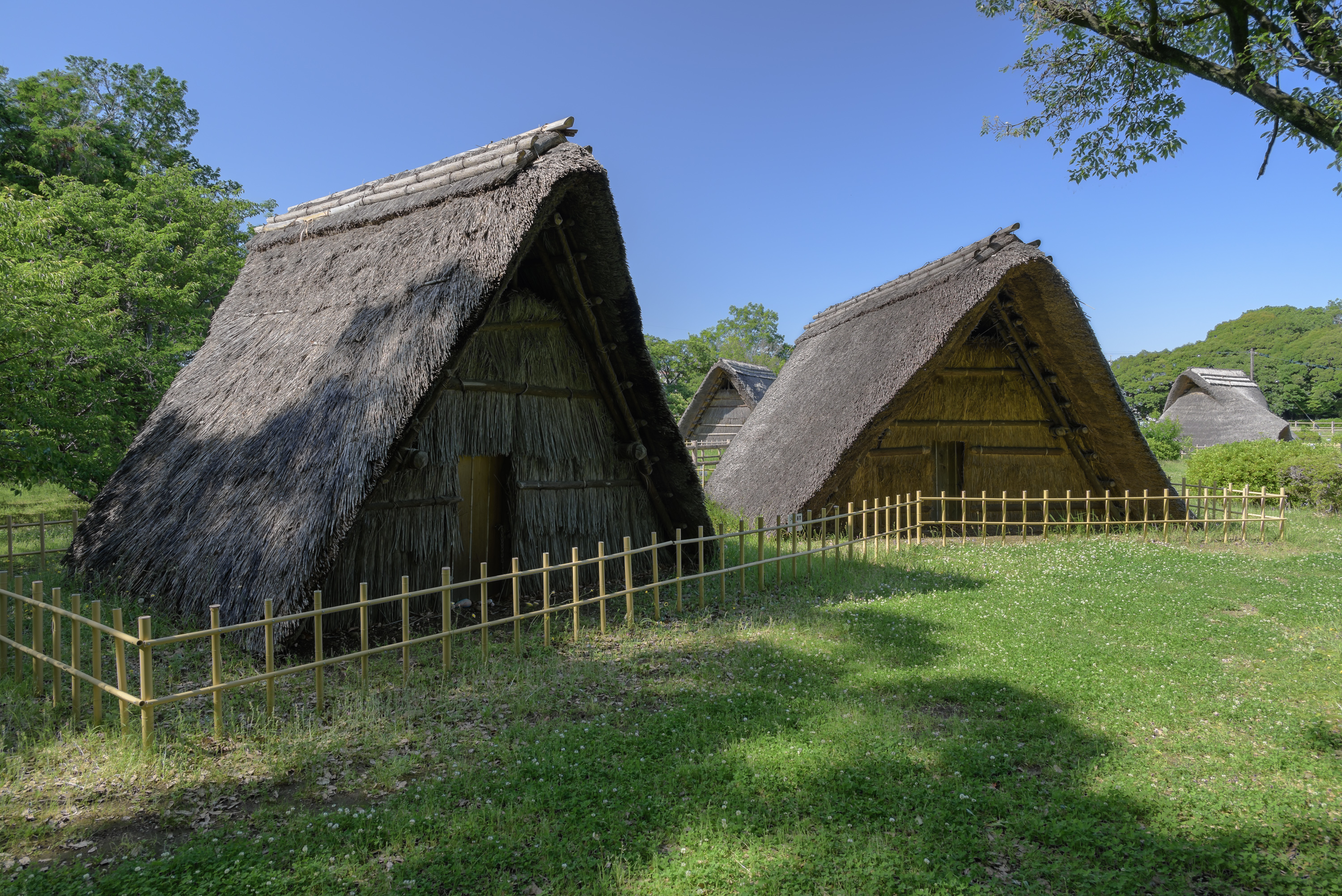 Shijimizuka Ruins (蜆塚遺跡), in Hamamatsu, Shizuoka, Japan